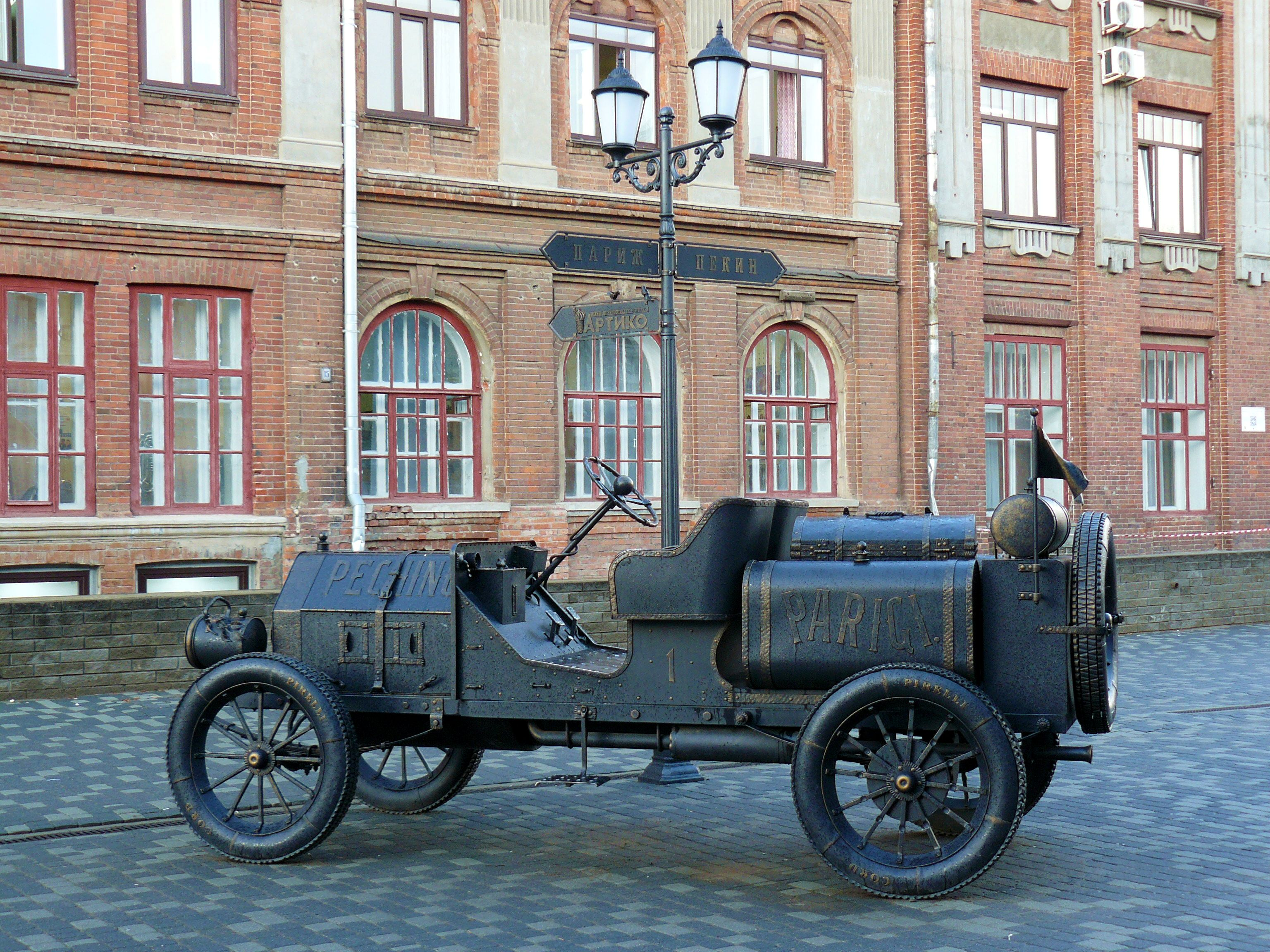 A photo of a sculpture of Scipione Borghese's ITALA 35/45 HP car on Spasskaya Street in Kirov, Russia.